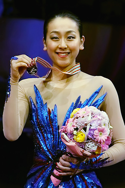 Mao Asada during the ladies medals ceremony at the 2014 World Championships. She won the gold medal at this competition.